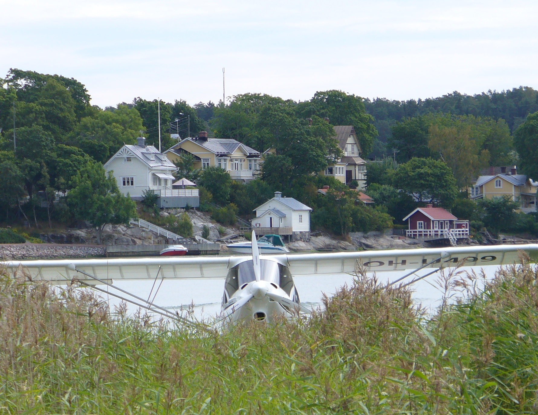 View from island Ruissalo to Hirvensalo.